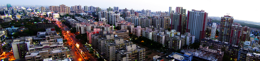 Skyline of Mumbai, India